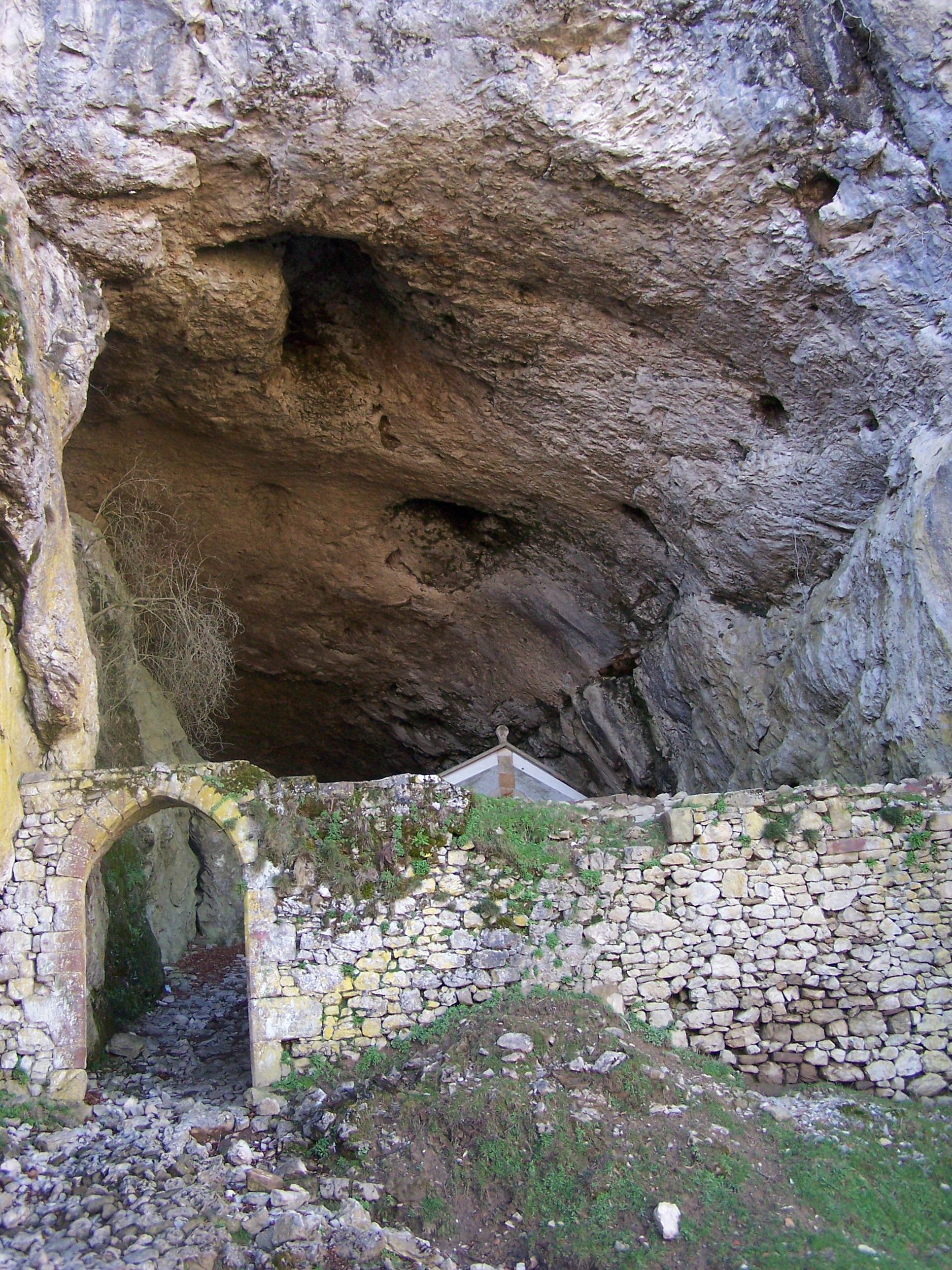 Eastern entrance of Lizarrate